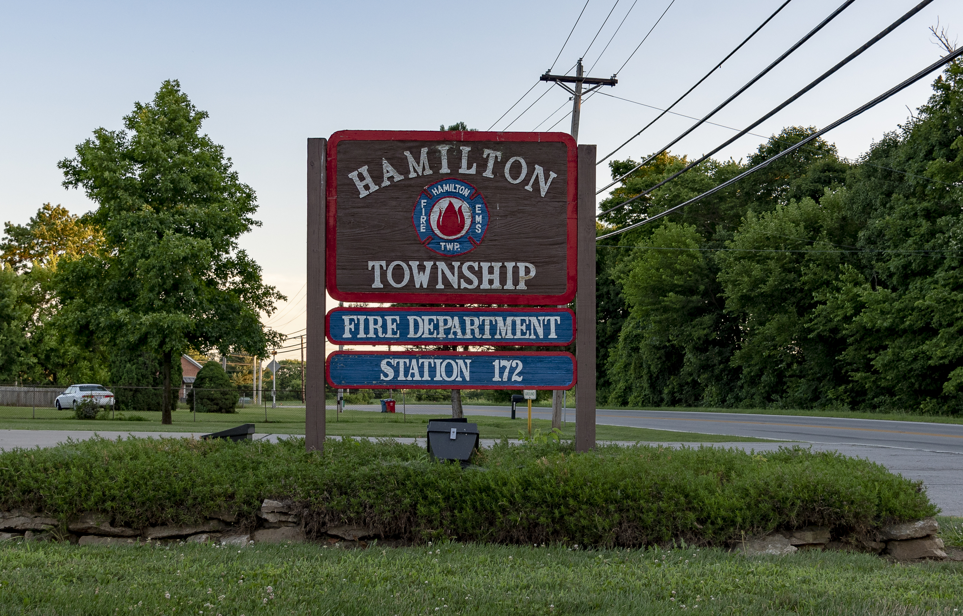 Hamilton Township Fire Department Sign for Fire Station 172.